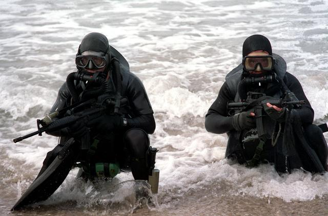 image of SEALs emerging from the ocean